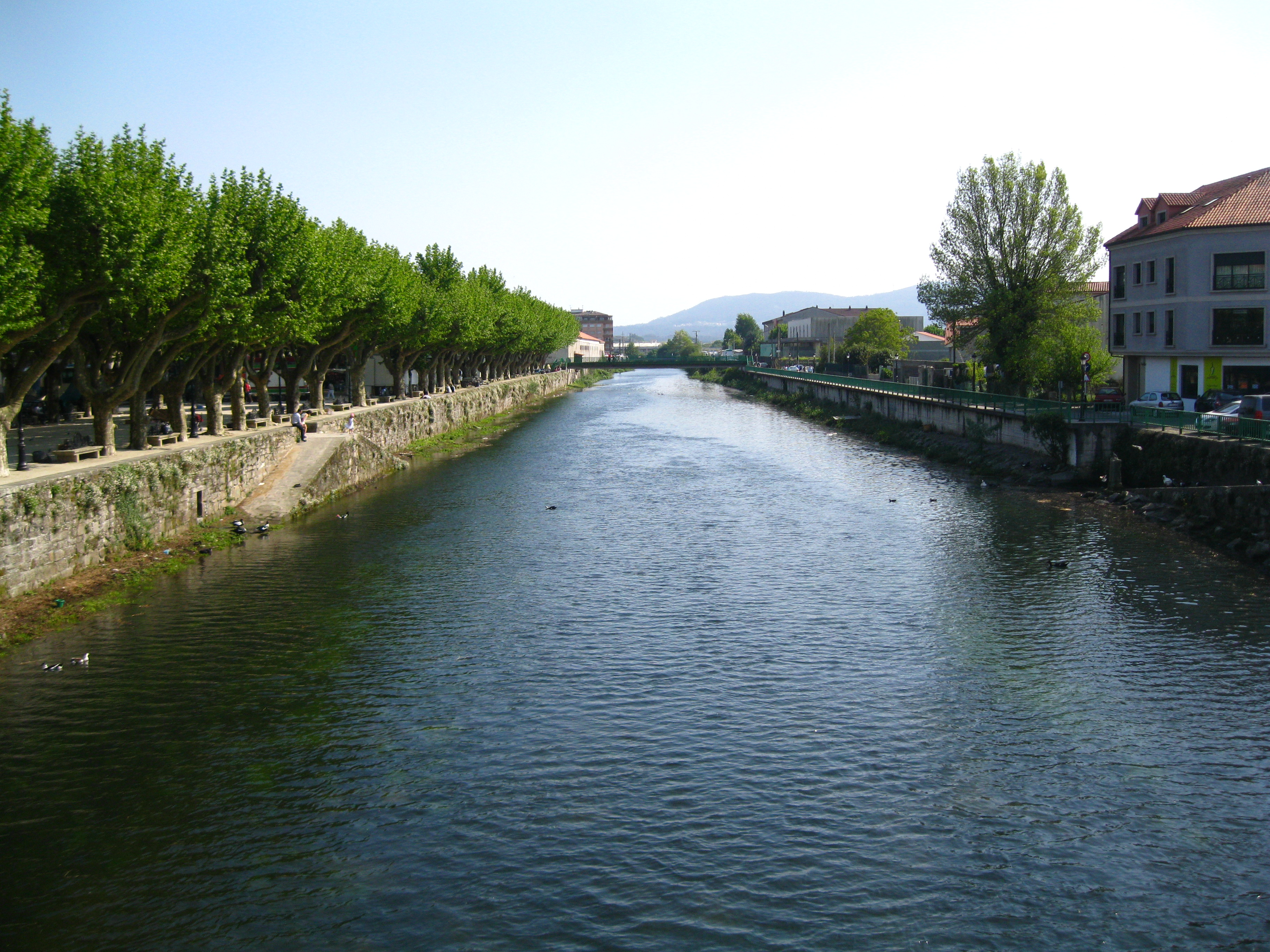 River Sar in Padrón (Galicia, Spain) seen from the Carme bridge.